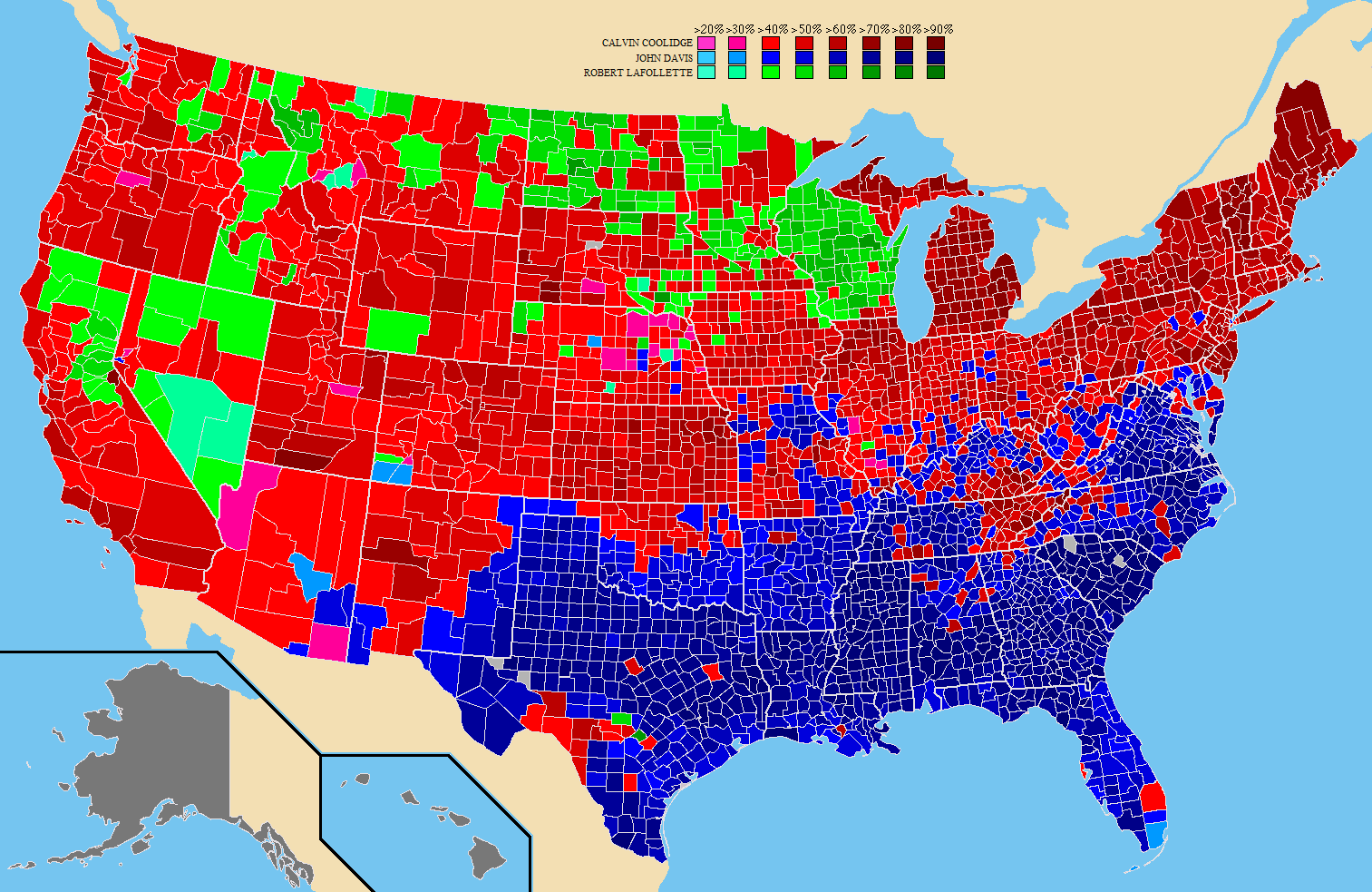 A map of the counties won by each candidate in the United States presidential election.